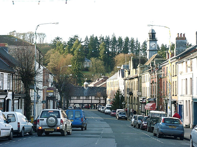 Great Oak Street Llanidloes